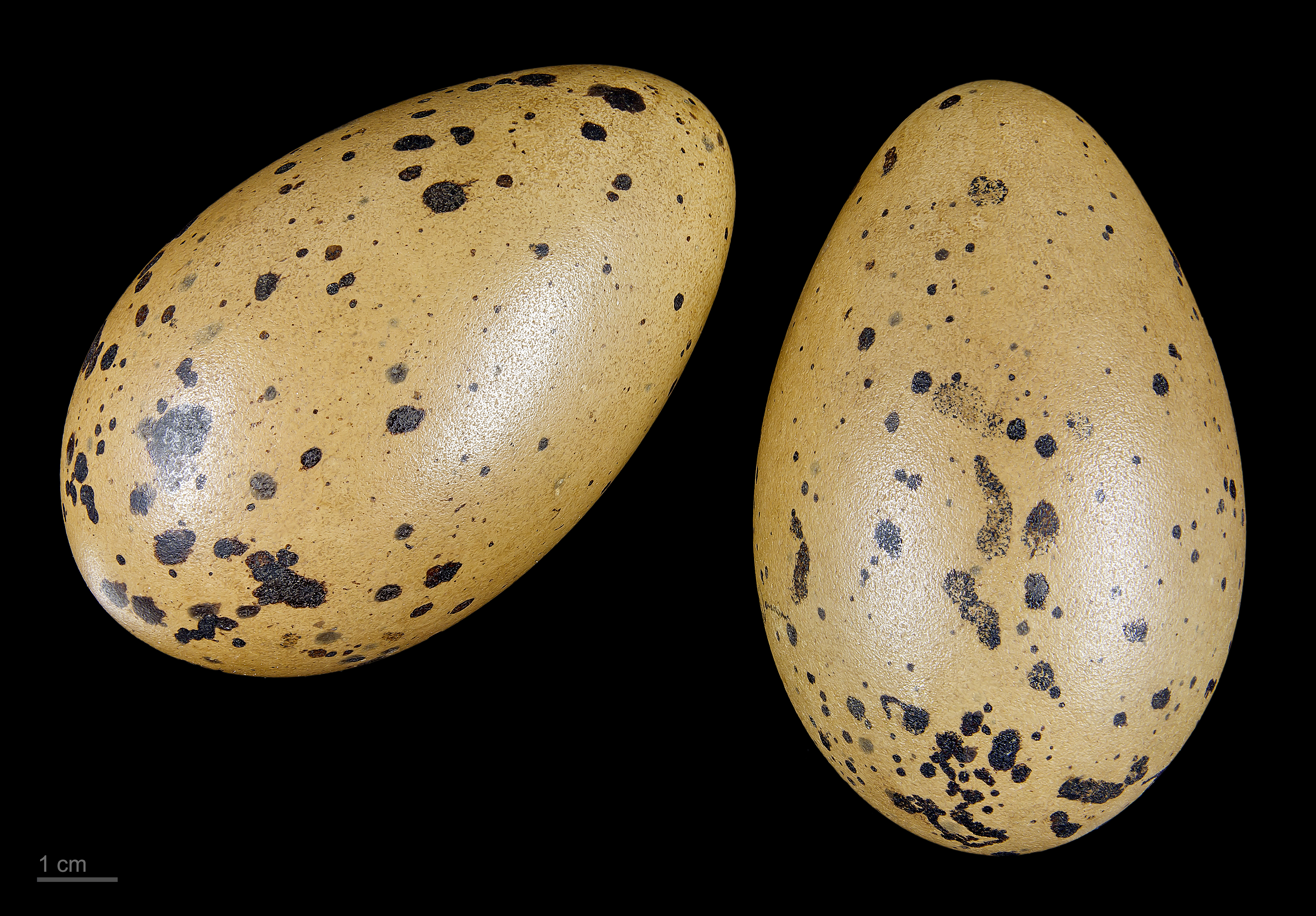 Eggs of Gavia arctica Two specimens of the same spawn ; collection of Jacques Perrin de Brichambaut.